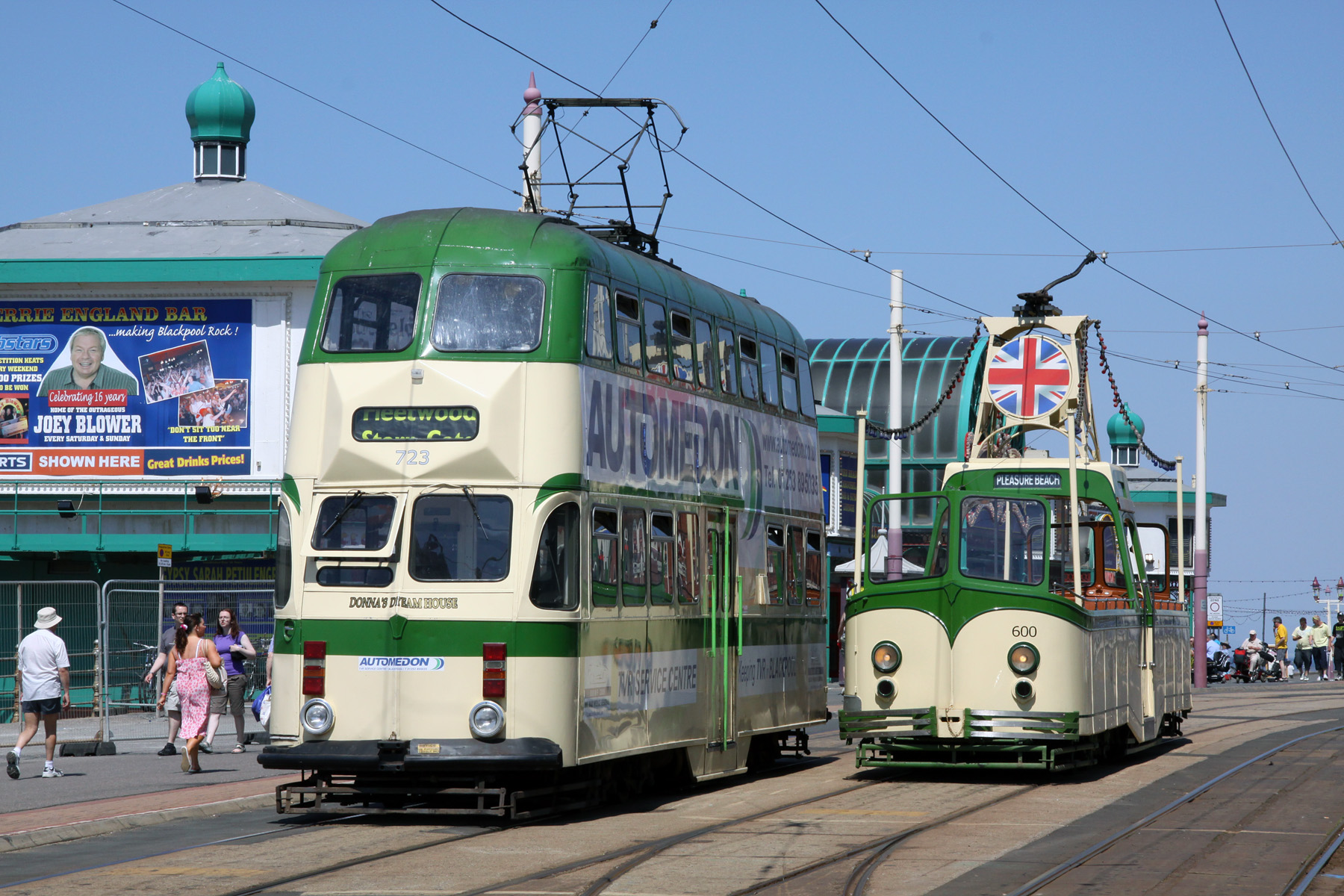 Blackpool Transport Services Limited car number 723 DONNA?S DREAM HOUSE, an English Electric Company Limited ?Balloon? double deck bogie car with English Electric 4'9" wheelbase equal wheel bogies, two English Electric 305 57 horse power motors and English Electric Z6 controllers with an English Electric H54/40C body built 1935 arrives at Talbot Square tram station, Blackpool with the 12:39 Starr Gate to Fleetwood Ferry service while Blackpool Transport Services Limited car number 600 DUCHESS OF CORNWALL, an English Electric Company Limited ?Open Boat? single deck bogie car with English Electric 4' wheelbase equal wheel bogies, two English Electric 327 40 horse power motors and English Electric DB1 controllers with an English Electric OB56C body built 1934 waits to work an extra service to the Pleasure Beach. Sunday 31st May 2009